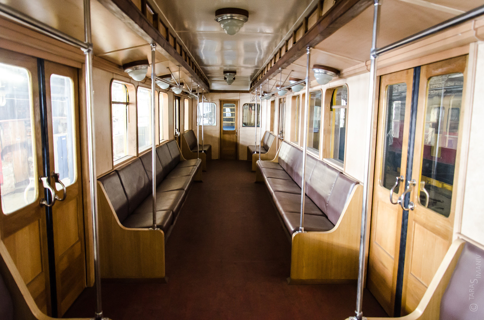 Interior of subway car V4-156 (ex. BVG C1-104), depot Avtovo of Saint Petersburg Metro